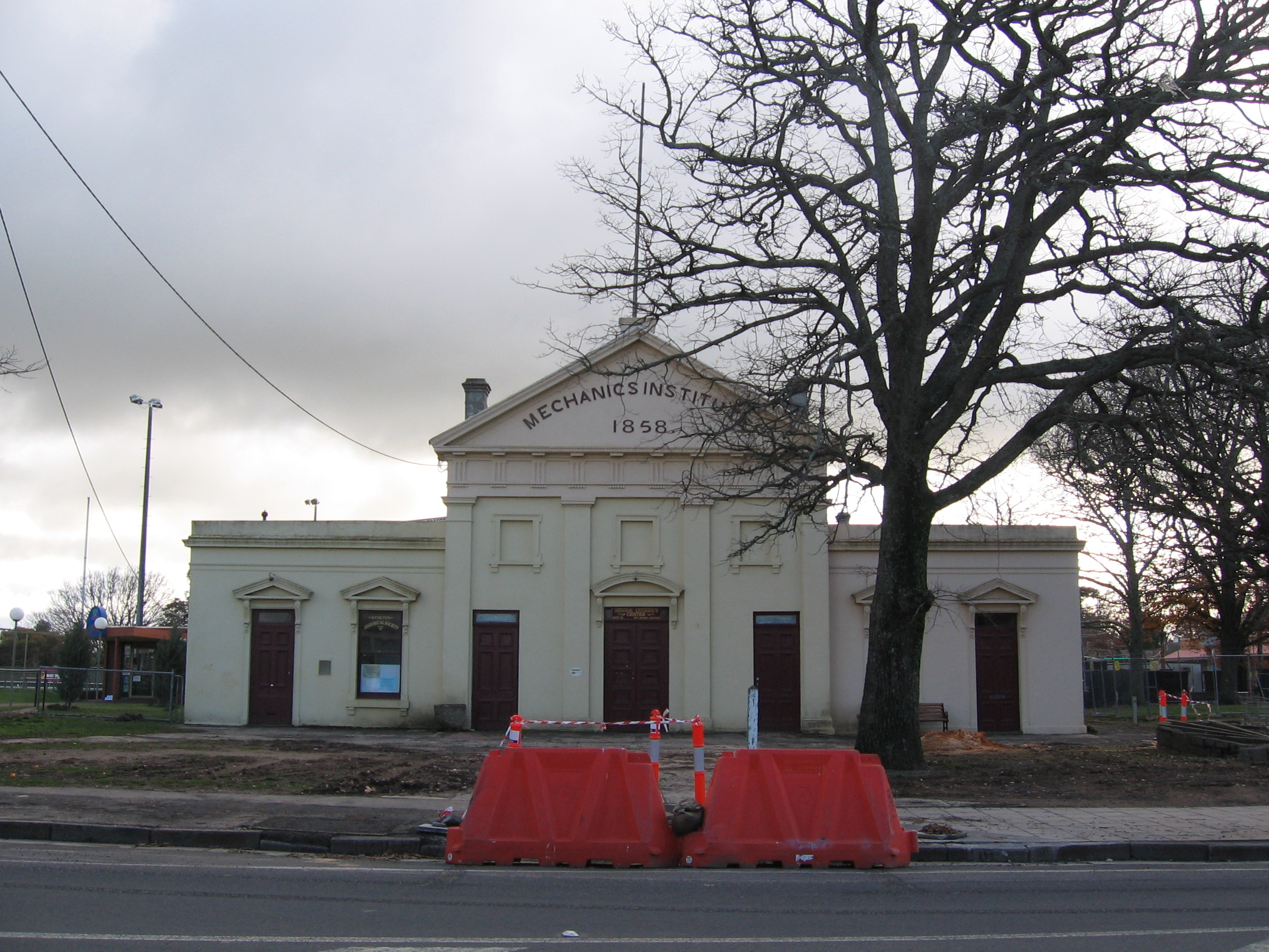 Mechanics Hall at Kyneton, Victoria